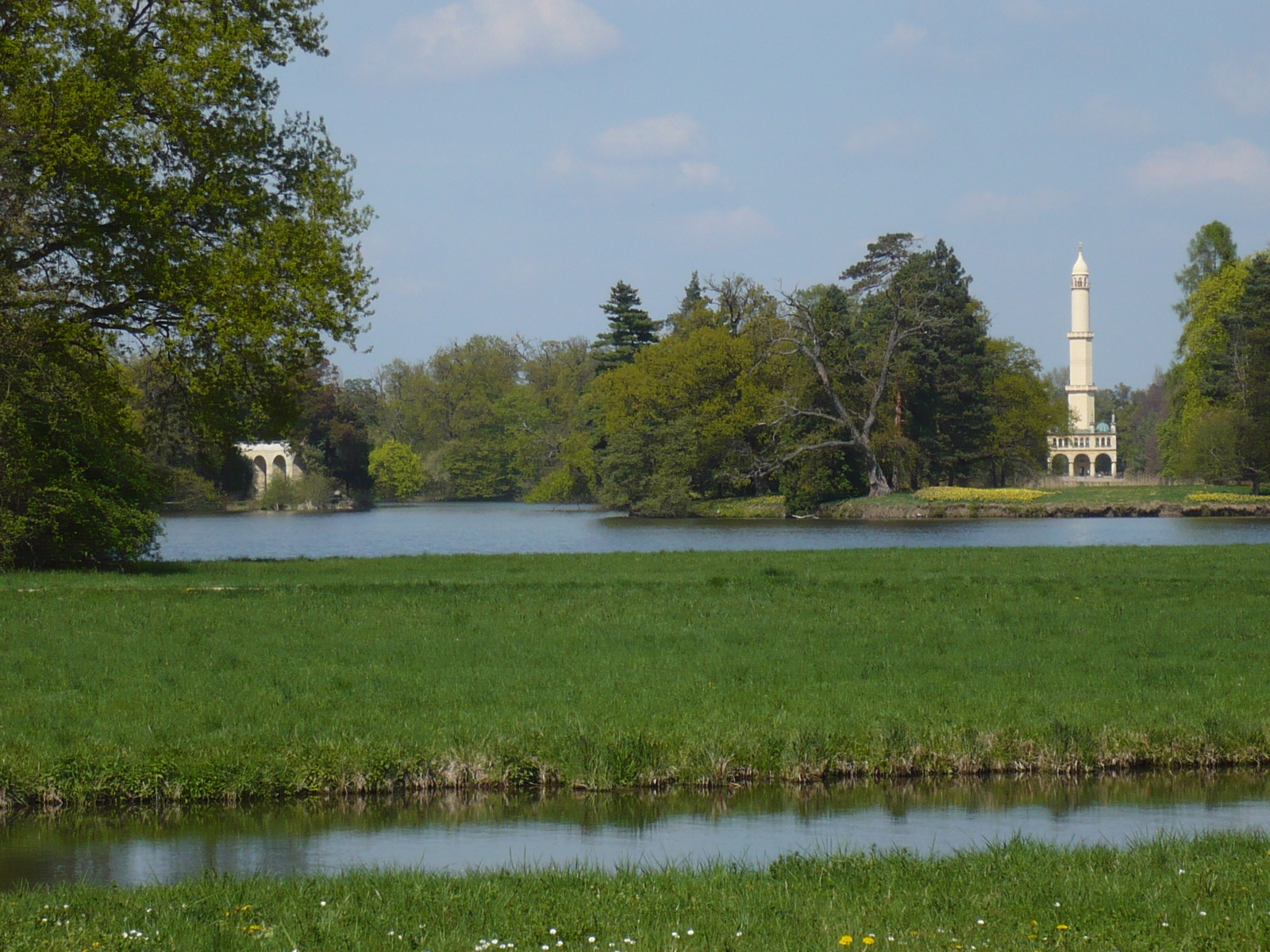 Minaret in Lednice - from the park, South Moravia, Czech Republic